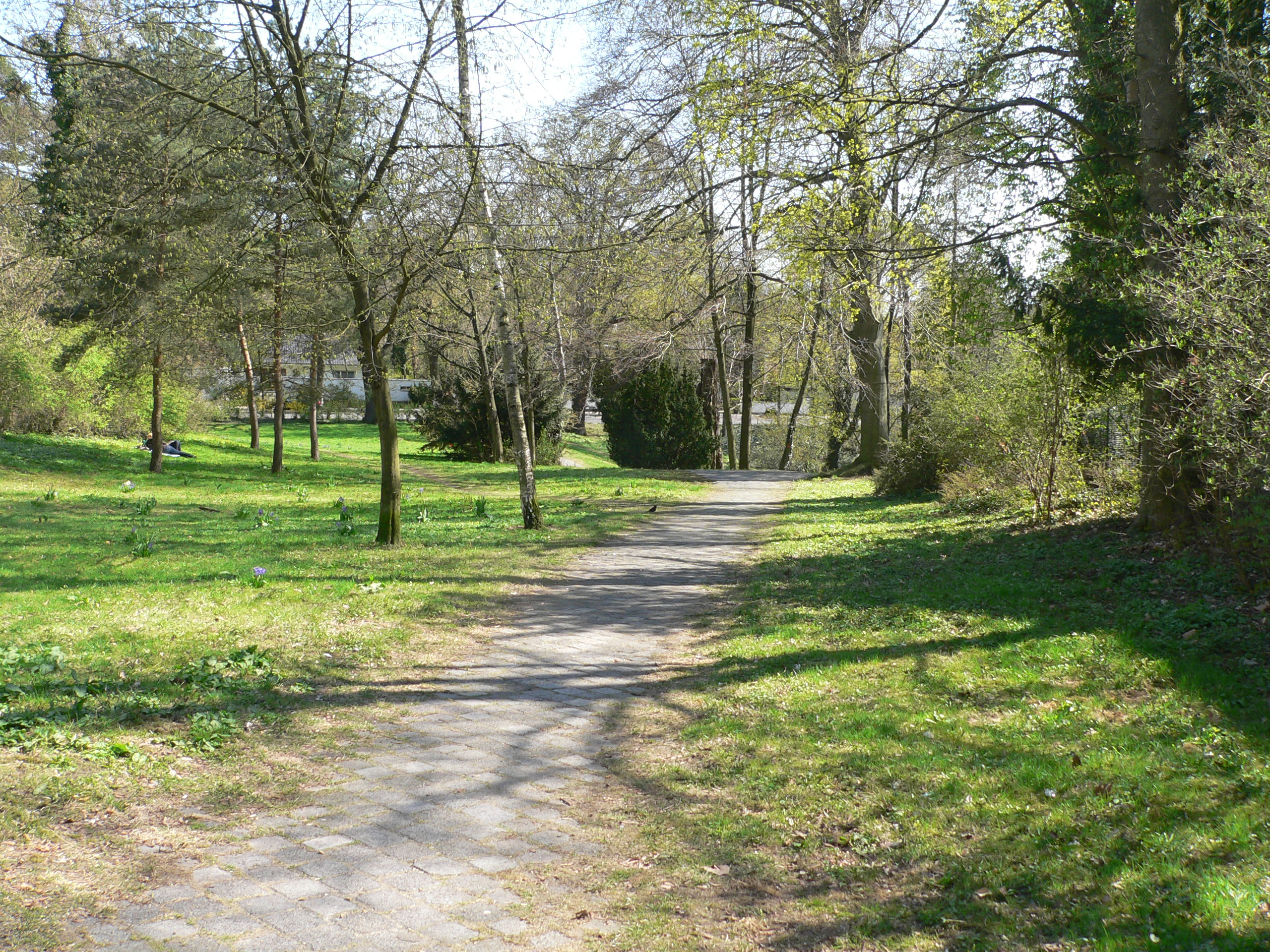 Berlin-Grunewald Koenigsallee am Koenigssee